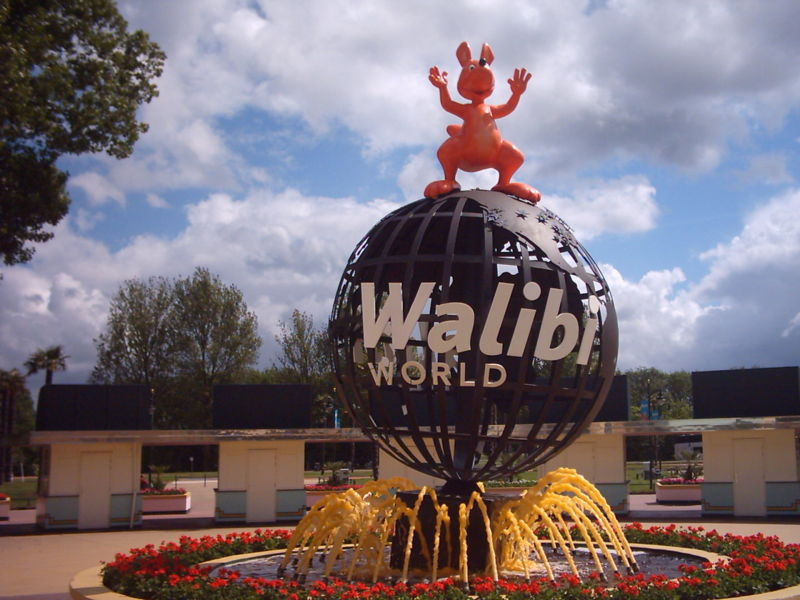 Entrance Walibi World, The Netherlands